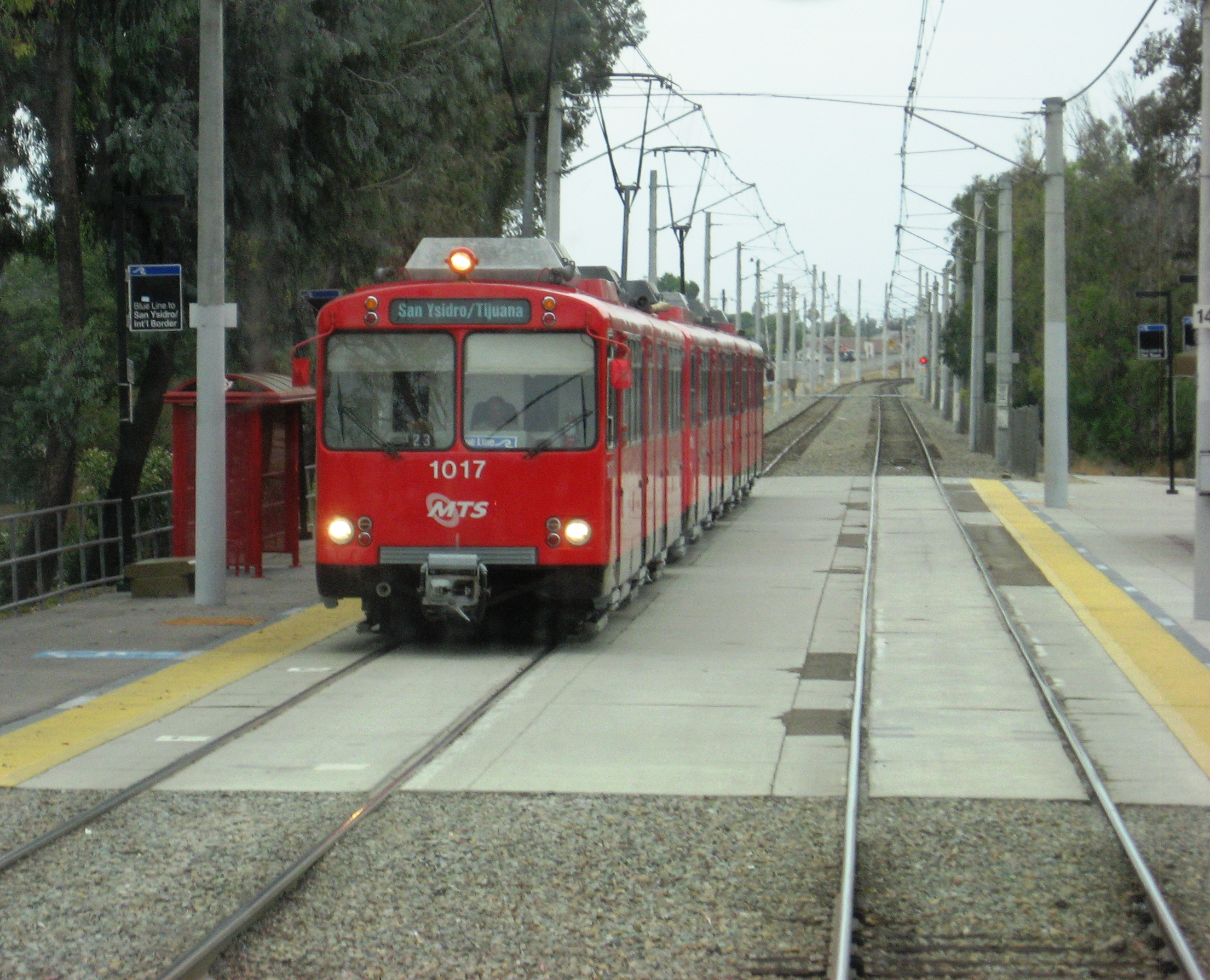 Beyer Blvd Trolley Station in San Diego, CA